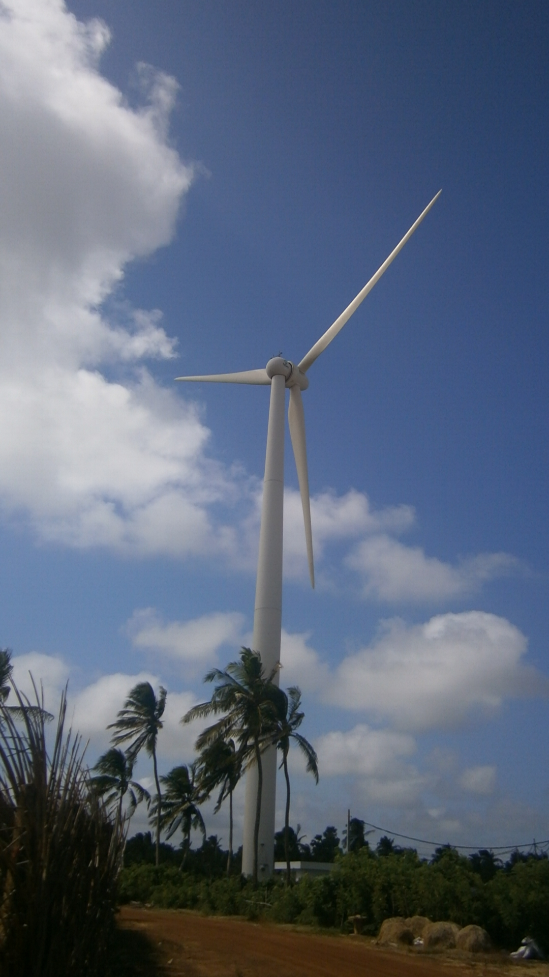 Madurankuliya Wind Farm site, Puttalam, Sri Lanka. July 2013.